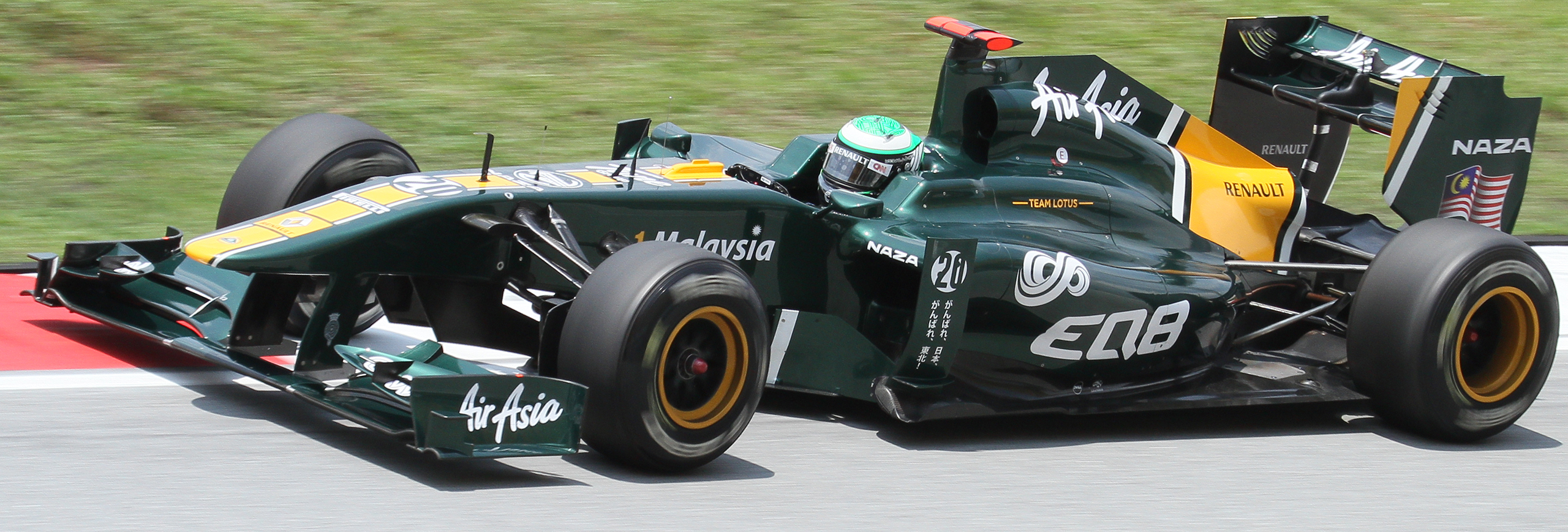 Formula One 2011 Rd.2 Malaysian GP: Heikki Kovalainen (Lotus) during the second practice session on Friday.